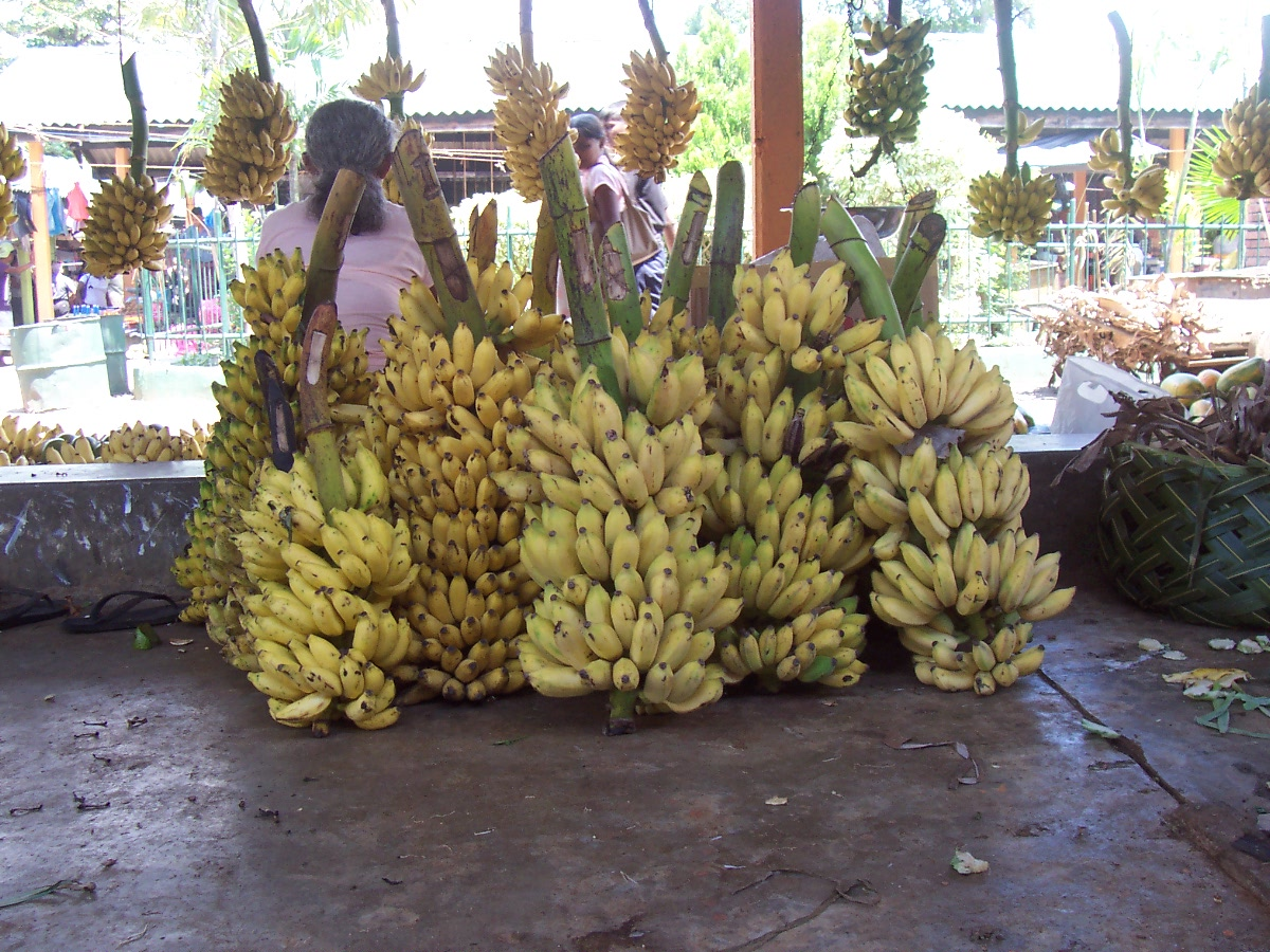 Plantains at the Kurunegala Fair, Sri Lanka